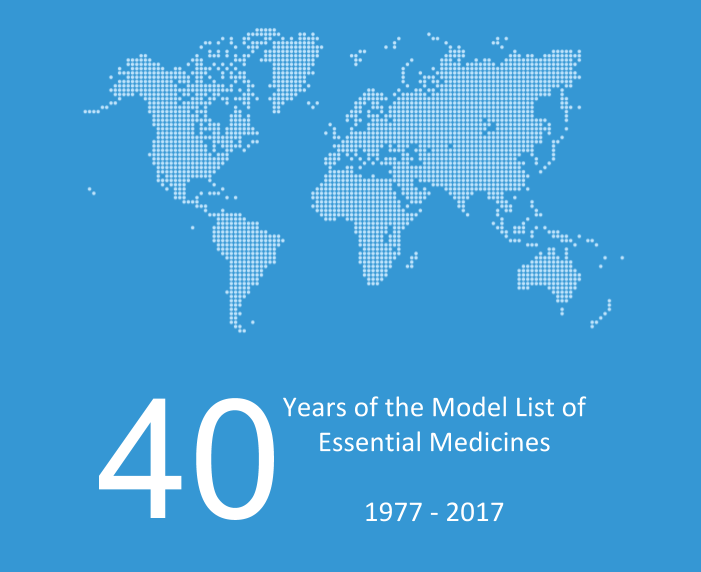 2017 marks the 40th anniversary of the WHO Model List of Essential Medicines. Promotional image based on one developed by the head of the WHO Essential Medicines group and released under a CC BY SA 3.0 license.